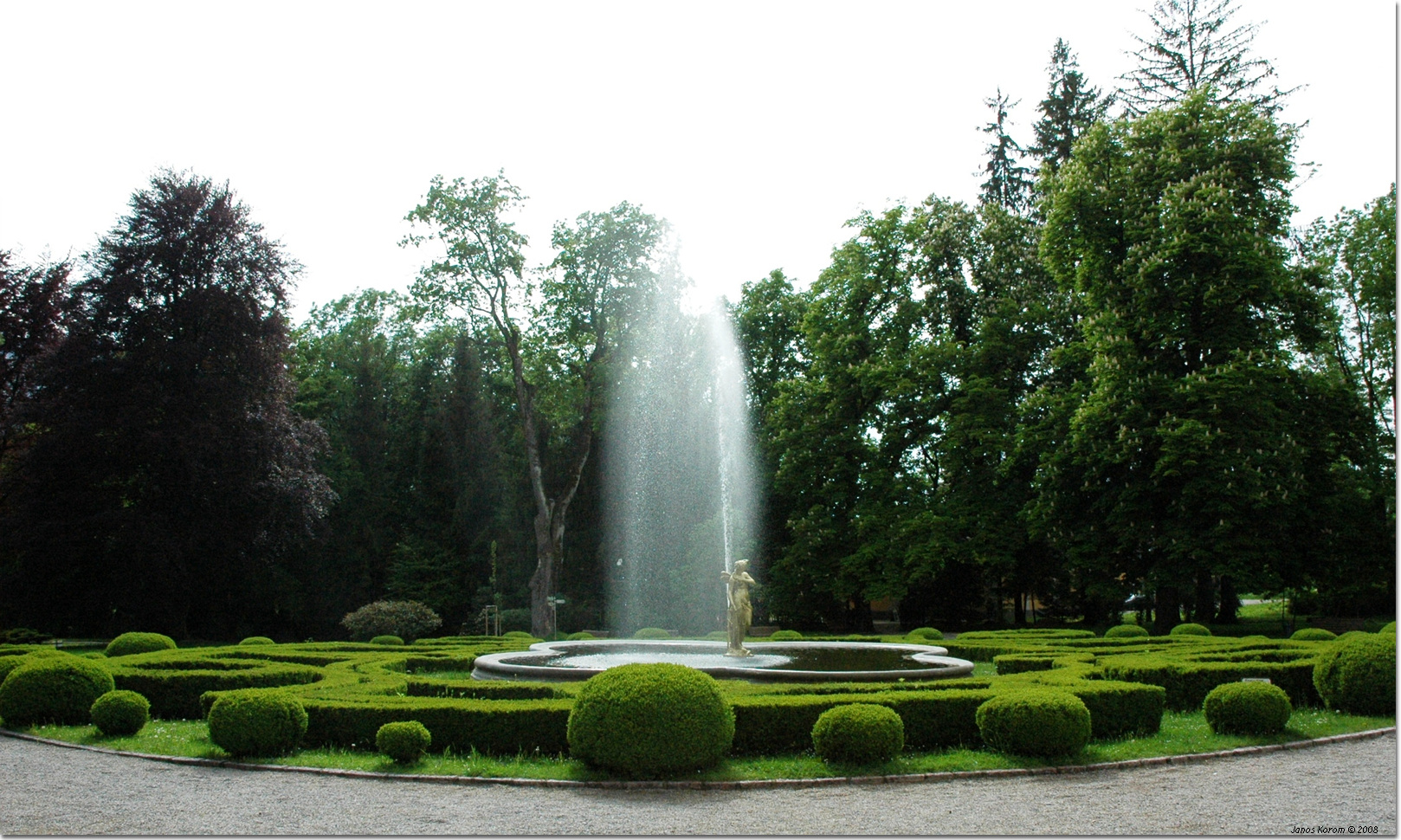 Slovakia, Betliar Castle, 2008